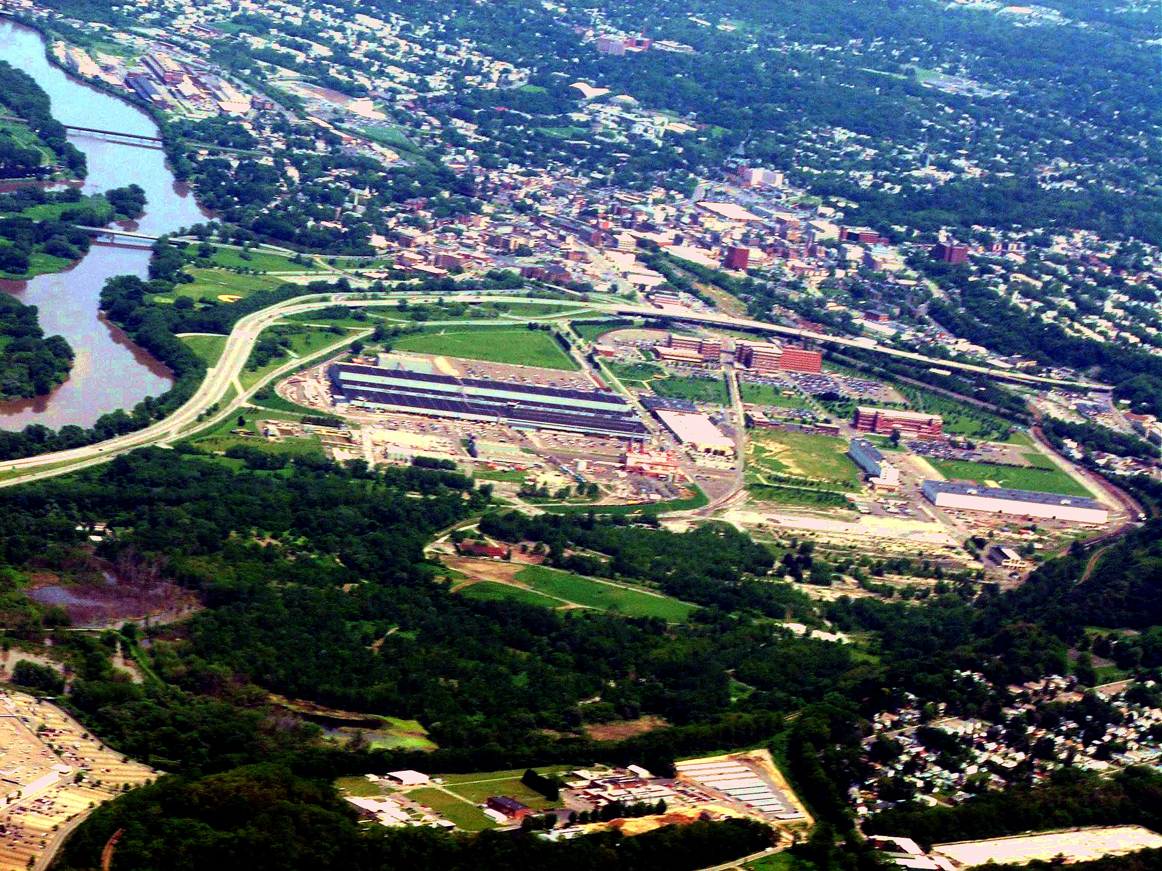 Aerial photo of Schenectady, New York with the General Electric in foreground. View looking toward the Northeast. Taken from 3500 Feet in a Cessna 150 Airplane.